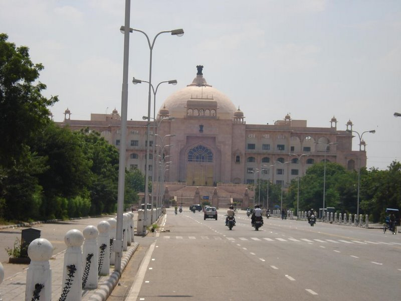 This is the front view of Newly built Rajasthan Assembly house, the photo is taken from Janpath.